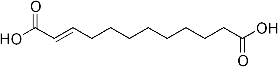 chemical structure of traumatic acid